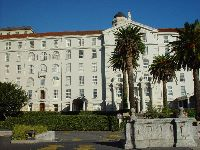 View of Old Main Building of Groote Schuur Hospital.